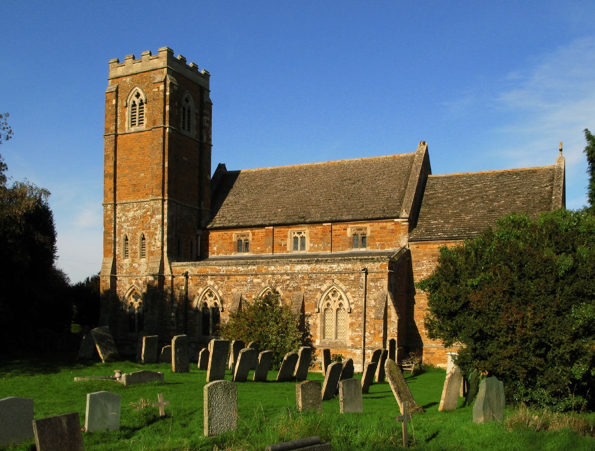 Church of England parish church of St John the Baptist, Bisbrooke, Rutland. The church was built in 1871 and the tower was completed in 1914. The churchyard has a number of Ketton oolite headstones that pre-date the present church.